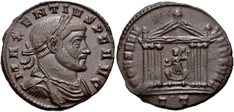 Maxentius. AD 307-312. Æ Follis (25mm, 6.22 g, 7h). Ticinum mint, 3rd officina. Struck AD 307-308. MAXENTIUS PF AUG, Laureate head right CONSERV URB SUAE, Roma seated facing, head left, within hexastyle temple, holding globe and scepter; TT. RIC VI 95.